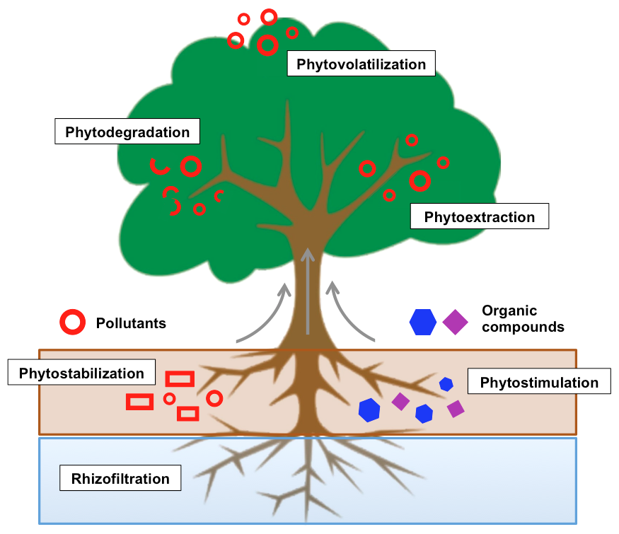 Pictorial representation